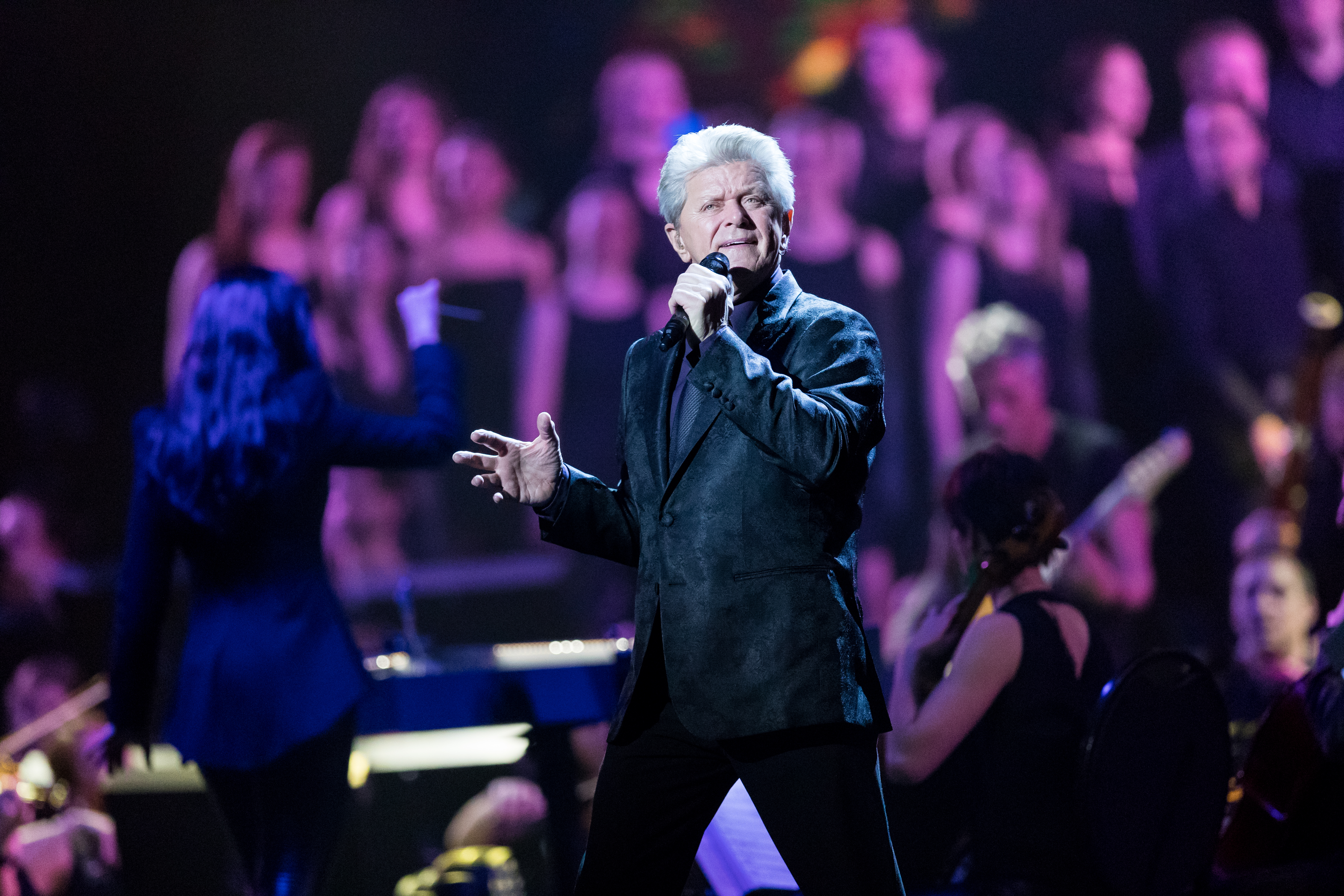 Peter Cetera during Night of the Proms at SAP Arena, Mannheim, Baden-Württemberg, Germany on 2017-12-22, Photo: Sven Mandel